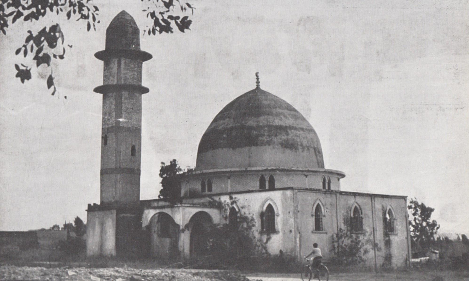 Mosque in Ness Ziona, Religion in Israel